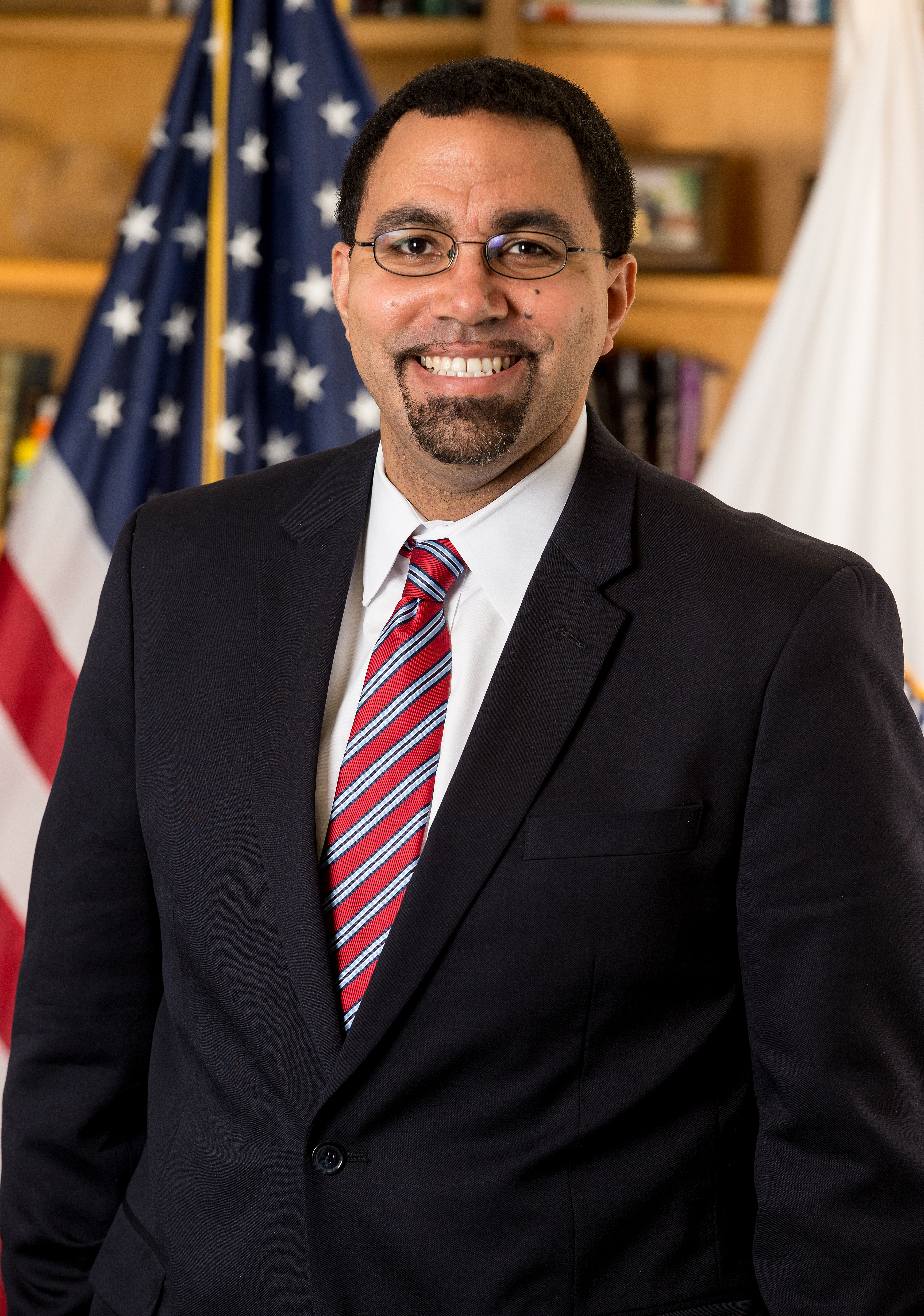 Official portrait of Secretary of Education John King Jr..